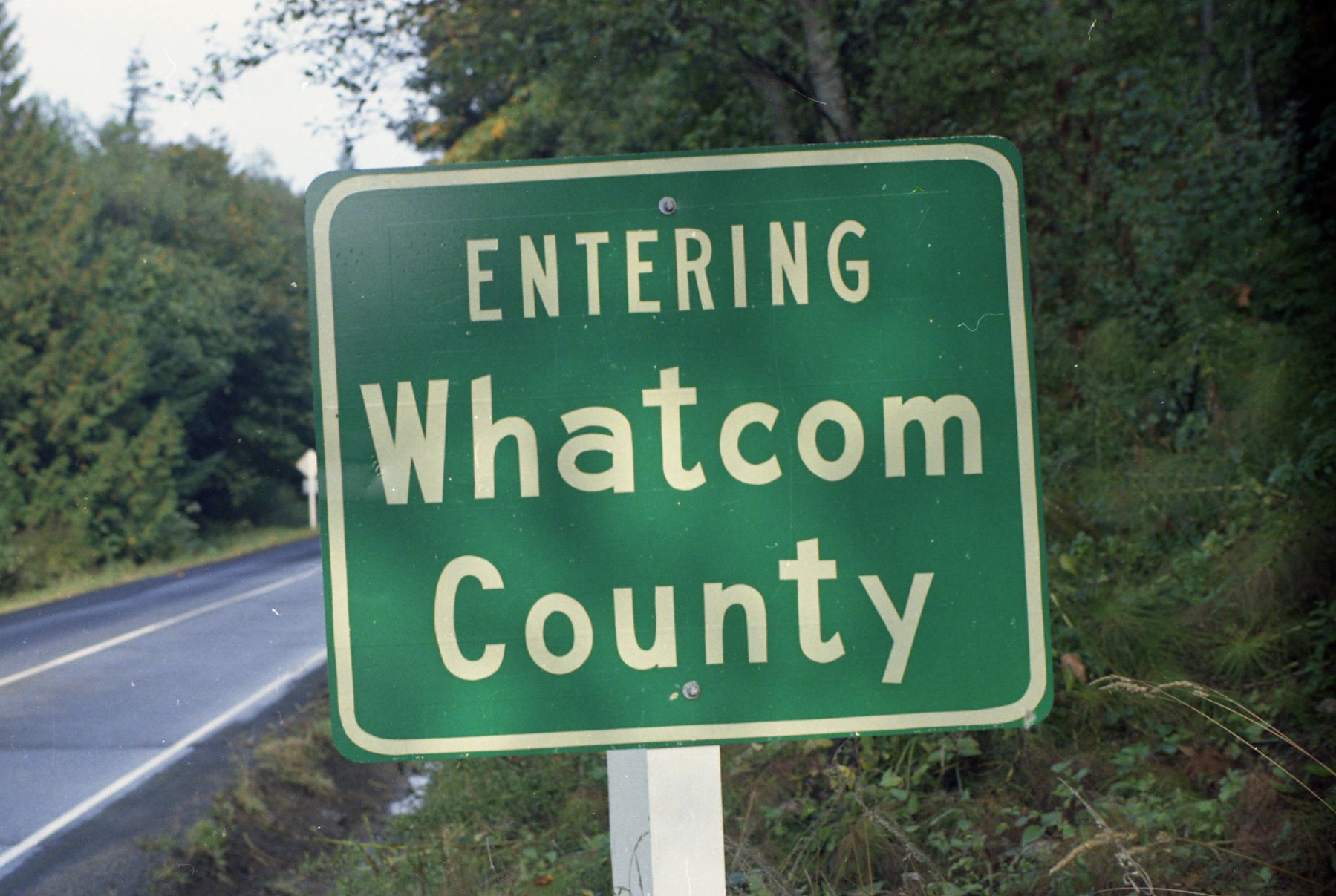 Sign at the border of Whatcom County, reads "ENTERING WHATCOM COUNTY." Other information Photo by George Garrigues.